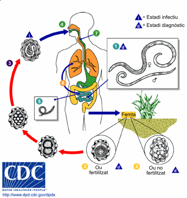 Ascariasis Life Cycle Catalan version. Els cucs adults (1) viuen en la llum de l'intestí prim. Una femella pot arribar a produir aproximadament 200.000 ous per dia, els quals passen a la femta (2). És possible que s'ingereixin ous no fertilitzats, però no són infectius. Els ous fèrtils embrionen i es tornen infectius entre 18 dies i diverses setmanes després (3), depenent de les condicions ambientals (òptimes: sòl humit, càlid i ombrejat). Després que els ous infectius són empassats (4), les larves eclosionen (5), envaeixen la mucosa intestinal, i són endutes per la circulació portal, i després cap a la circulació sistèmica i als pulmons. Les larves maduren en els pulmons en 10 a 14 dies (6), després penetren les parets alveolars, i ascendeixen per l'arbre bronquial fins a la gola, on són deglutides (7). Una vegada que han assolit l'intestí prim, segueixen el seu desenvolupament fins a cucs adults (8). Transcorren entre 2 i 3 mesos des de la ingestió dels ous infectius fins a la posta d'ous per la femella adulta. Els cucs adults poden viure entre 1 i 2 anys.